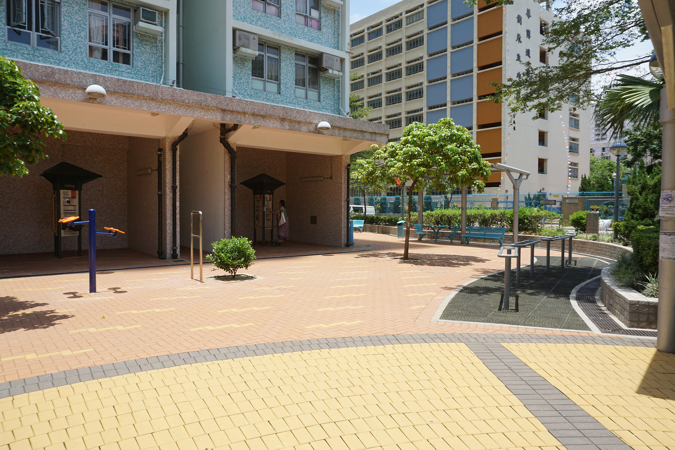 Chai Wan Estate in Chai Wan, Hong Kong.